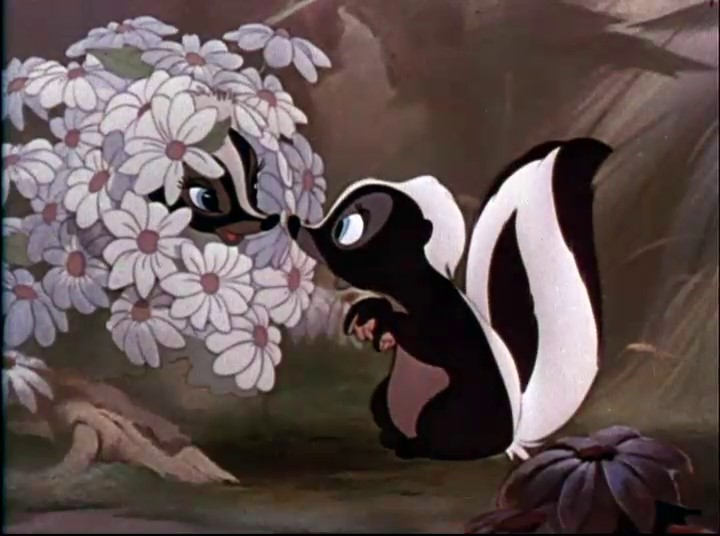 Screenshot of Flower from the trailer for the film Bambi